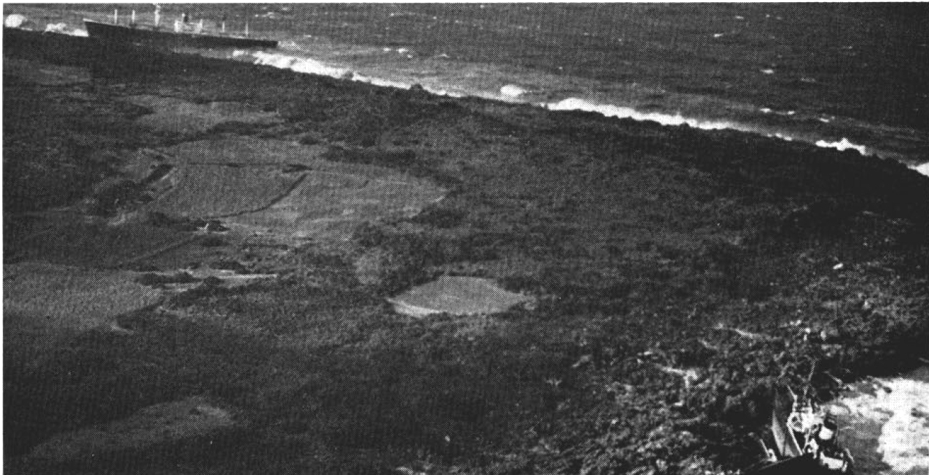 The U.S. Lines merchant ship SS Pioneer Muse, background, and the Lebanase merchant ship SS Sheik foundered on Kitadaitōjima. SS Pioneer Muse stranded during Typhoon Violet in October 1961. The crew of 57 was rescued by the attack cargo ship USS Tulare (AKA-112) and the helicopter carrier USS Princeton (LPH-5) on 8 October 1961, together with 27 crew from the 7.300 ton Lebanase merchant ship SS Sheik which had stranded a week before Pioneer Muse during Typhoon Tilda. Kitadaitōjima is the northernmost island in the Daitō Islands group, located in the Philippine Sea southeast of Okinawa, Japan. After World War II, the island was occupied by the United States. The use of increased mechanization increased phosphate yields marginally until the deposits were exhausted by the mid-1950s. The island was uninhabited at the time of the shipwrecks until it was returned to Japan in 1972.